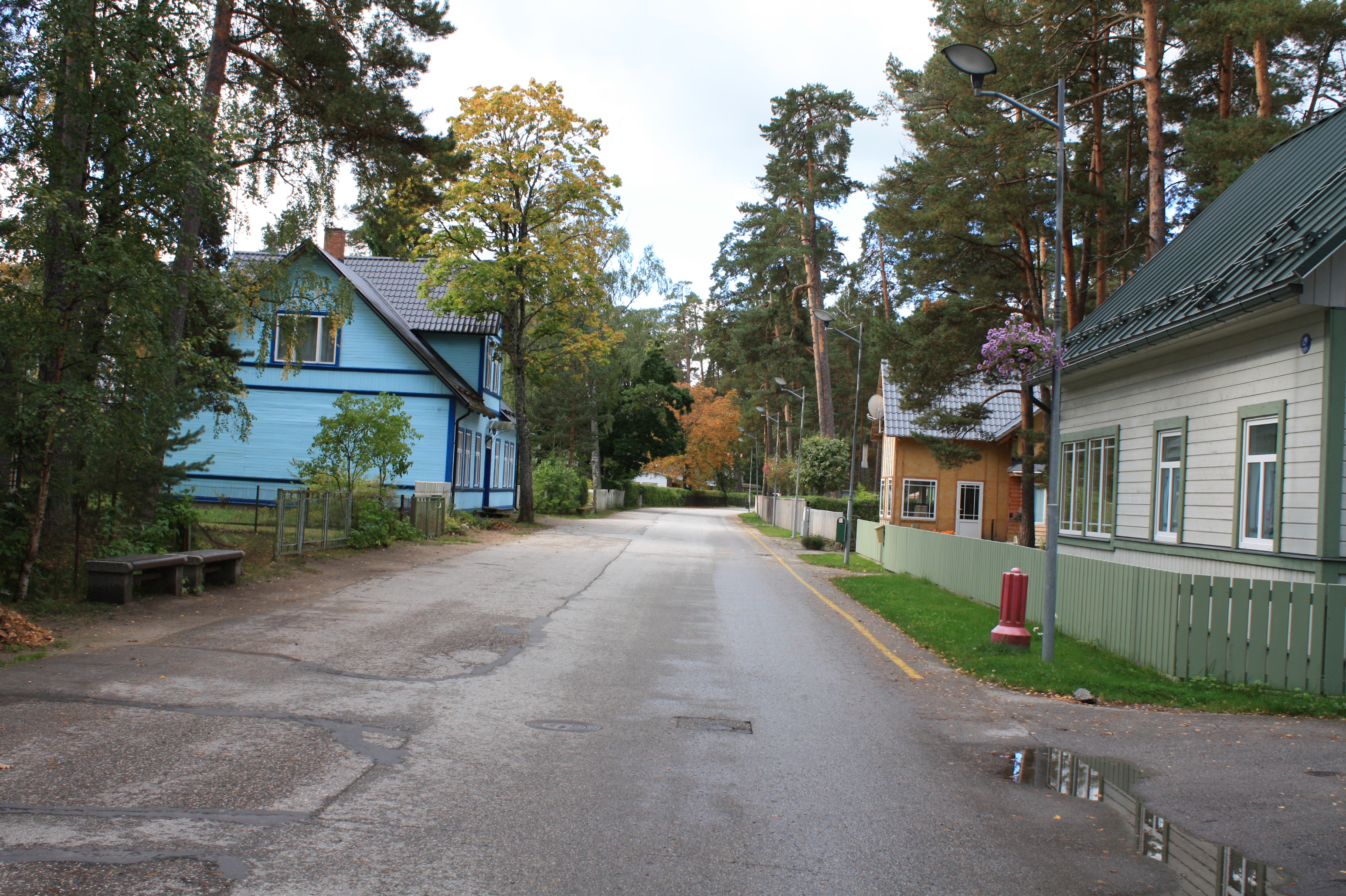 The mail steet of Võsu, Estonia